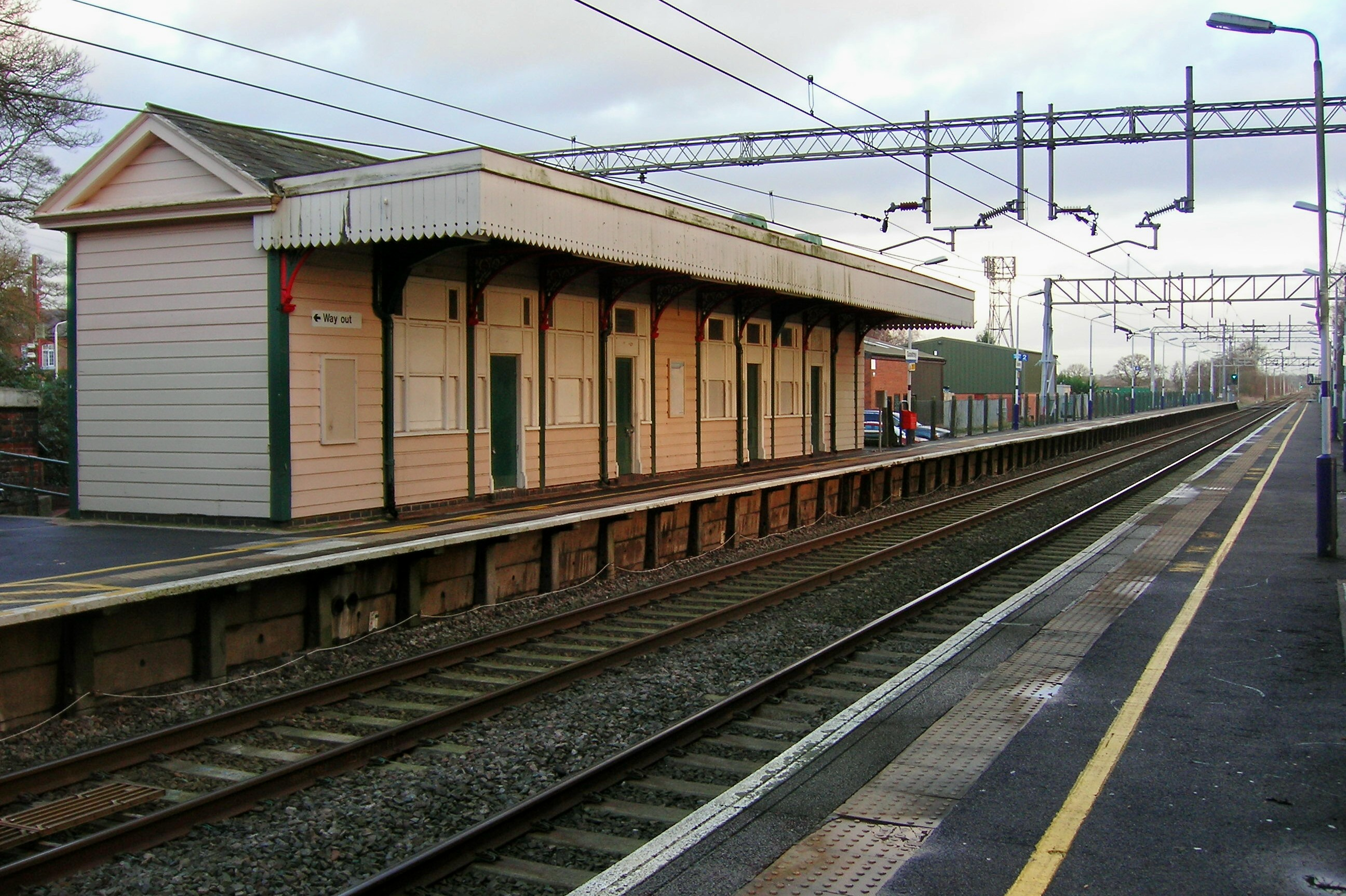 Goostrey railway station. View from the eastern platform for southbound trains looking north